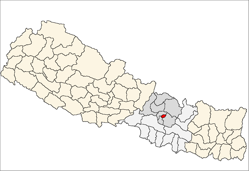 FrenchCarte de localisation dudistrict de Bhaktapur(wp-FR),au Népal (wp-FR).EnglishLocation map ofBhaktapur District(wp-EN),in Nepal (wp-EN).